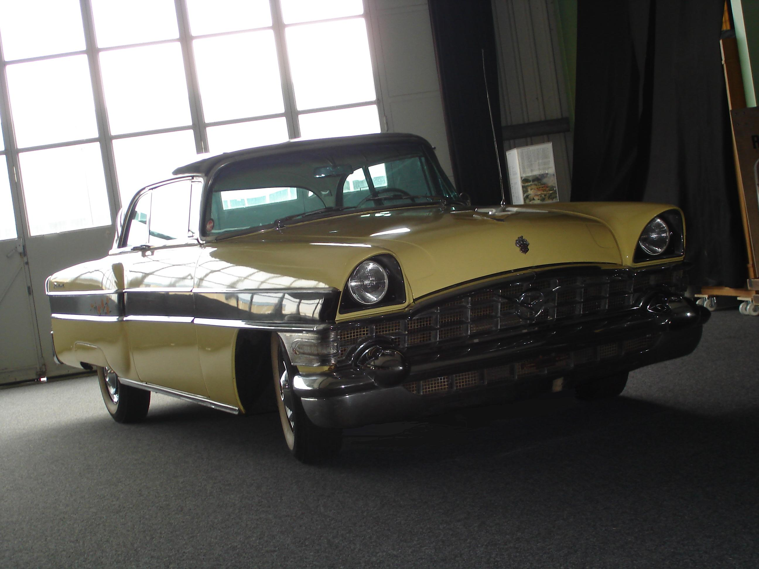 1956 Packard Executive (model 5677) front left